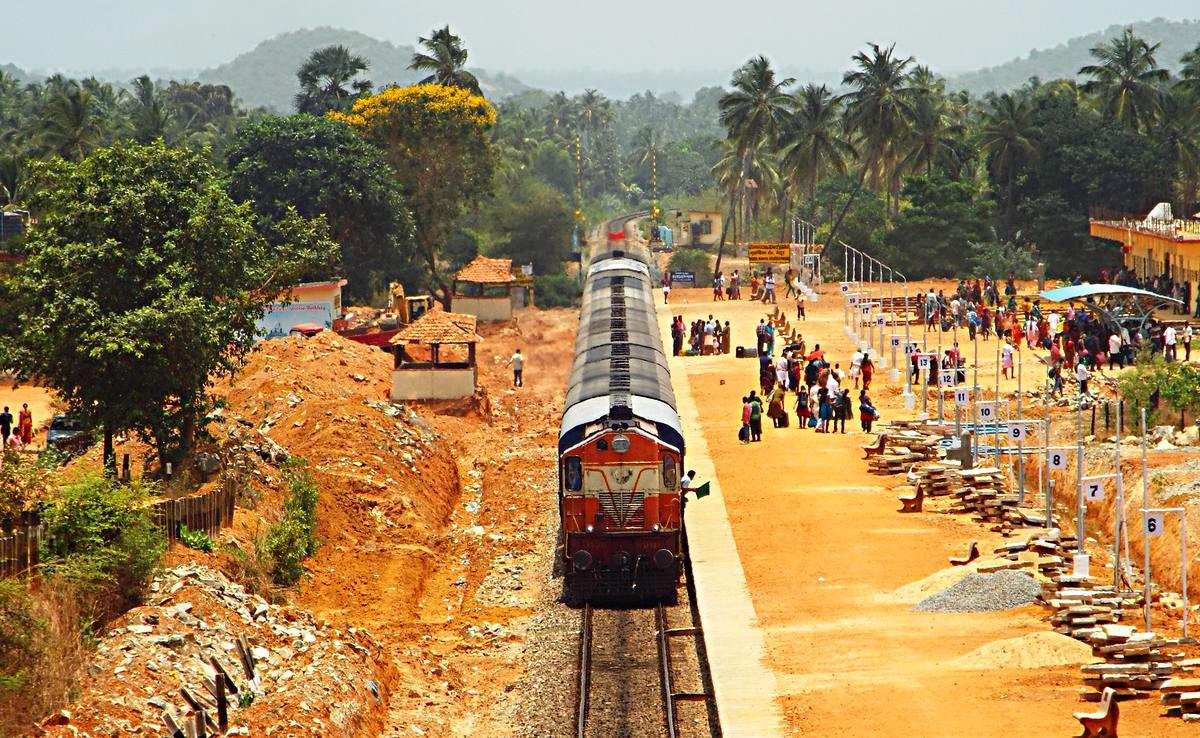 Byndoor